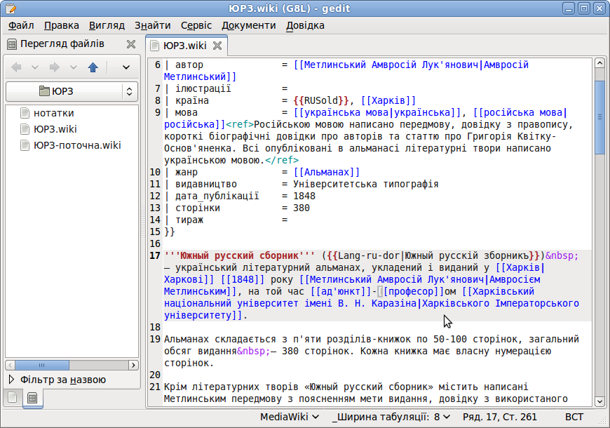 The gedit 2.30 text editor in the GNOME environment, running under Ubuntu, with a Ukrainian version of the user interface. Displayed in the editor is an excerpt from Южный русский сборник article in Ukrainian Wikipedia.